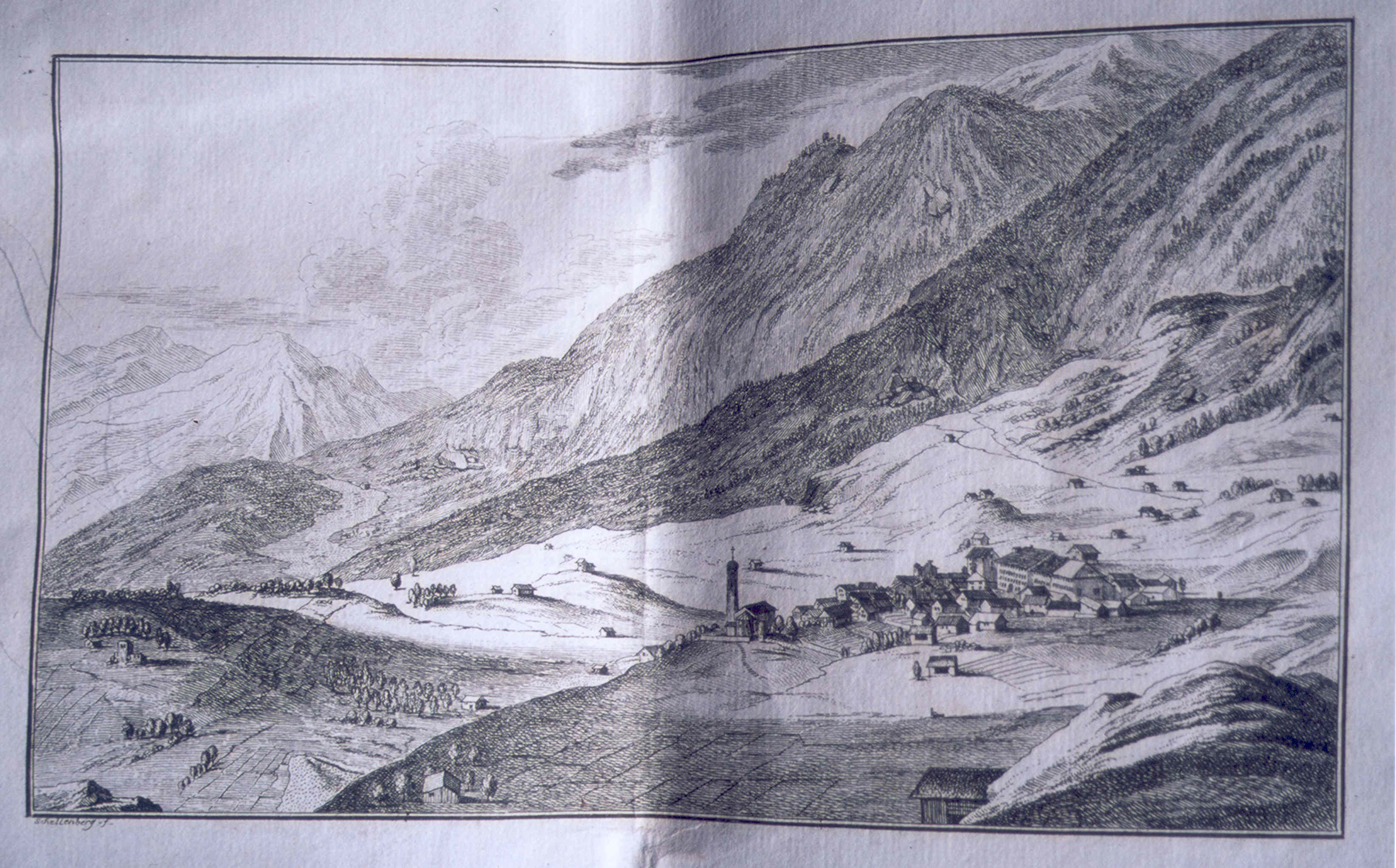 Scan of photo (April 2006, R. de Salis) of part of titlepage of Stemmatographia Saliceorum. Rodolph 12:42, 9 June 2007 (UTC) (Full image: 50px)